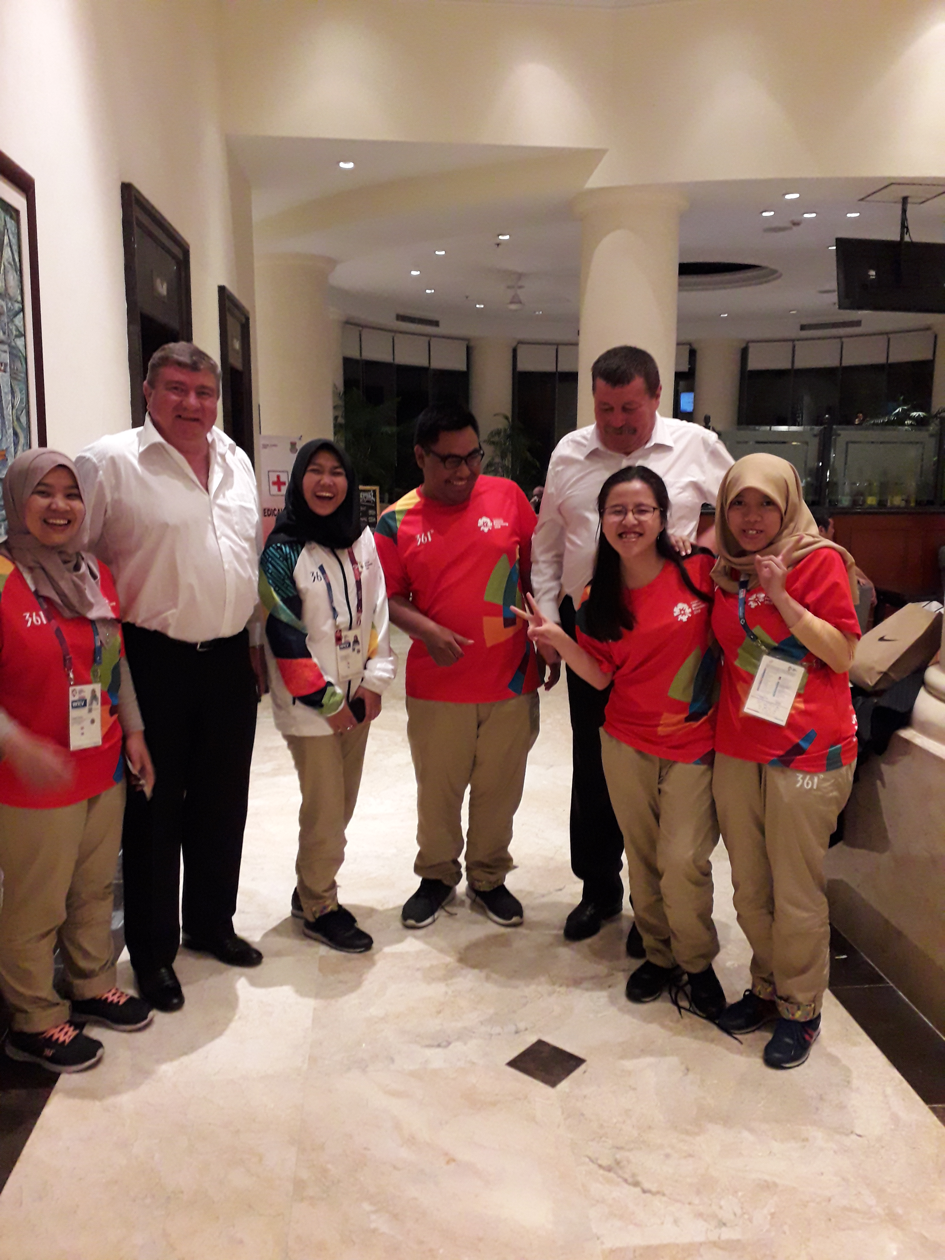 Volunteer of Asian Games 2018 in orange shirt in frame with Mr. Viktor MALTSEV (Secretary General of Modern Pentathlon & Biathlon Federation of Kyrgyzstan) and Mr. Dmitry TYURIN (Modern Pentathlon Federation of Kazakhstan) during their stay at Aryaduta Lippo Village, Karawaci, Tangerang, Banten.